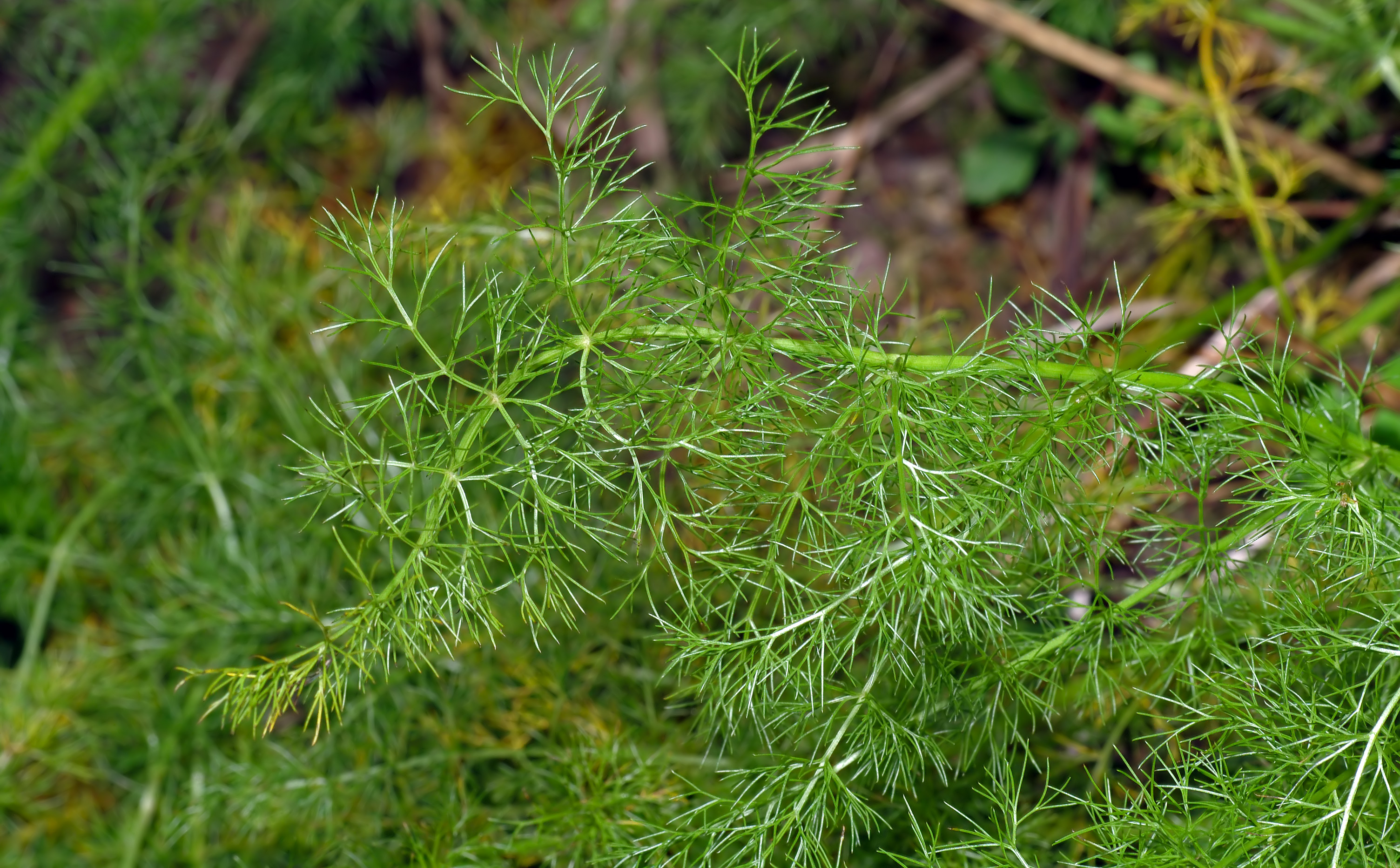 This image shows a Spignel plant (Meum athamanticum).